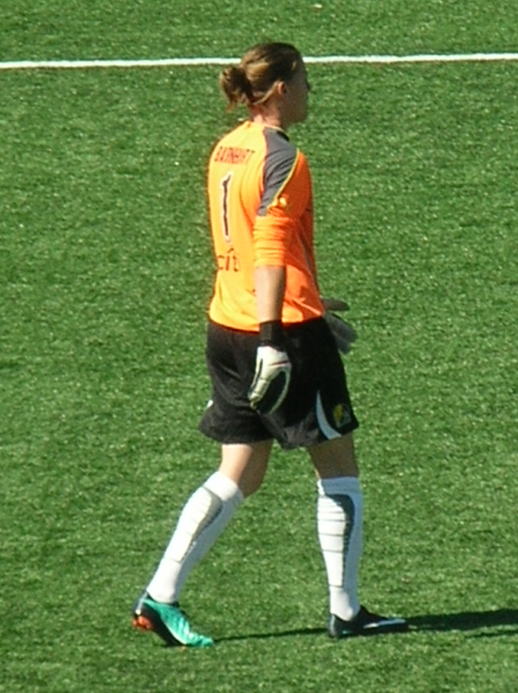 FC Gold Pride goalkeeper Nicole Barnhart at the 2010 WPS Championship at Pioneer Stadium in Hayward against the Philadelphia Independence. The Gold Pride won 4-0.